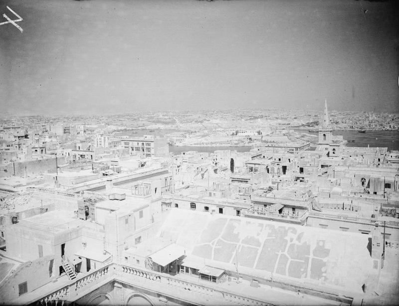 Aerial Views of Mersa Museta Harbour, Malta. 3 August 1942.